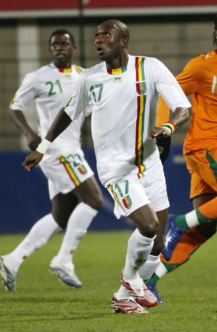 Guinean player Mamadou Alimou Diallo during match Guinea vs. Côte d'Ivoire at Stade Robert Diochon, Rouen, France.